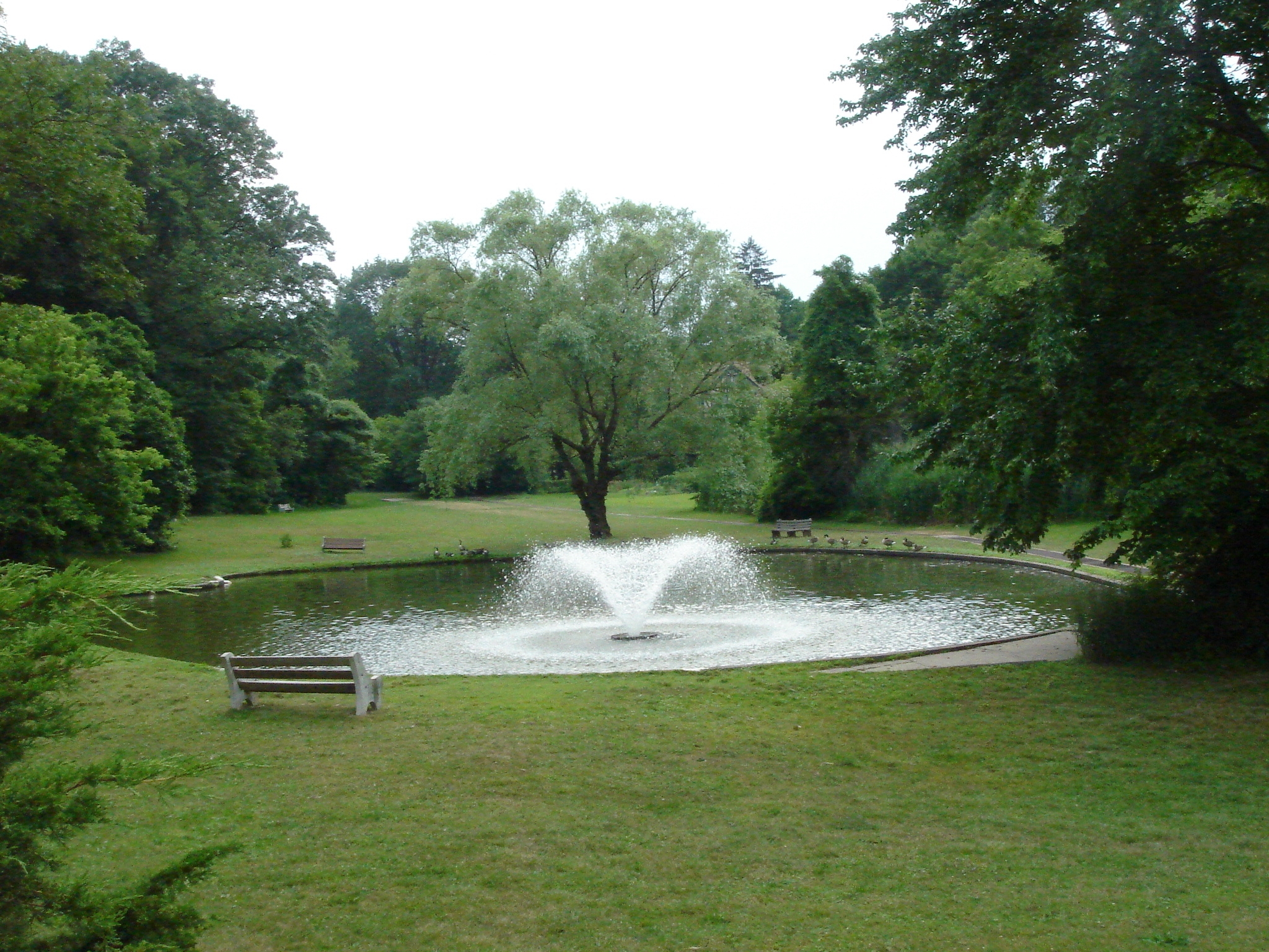 Park scene in Wyncote PA USA